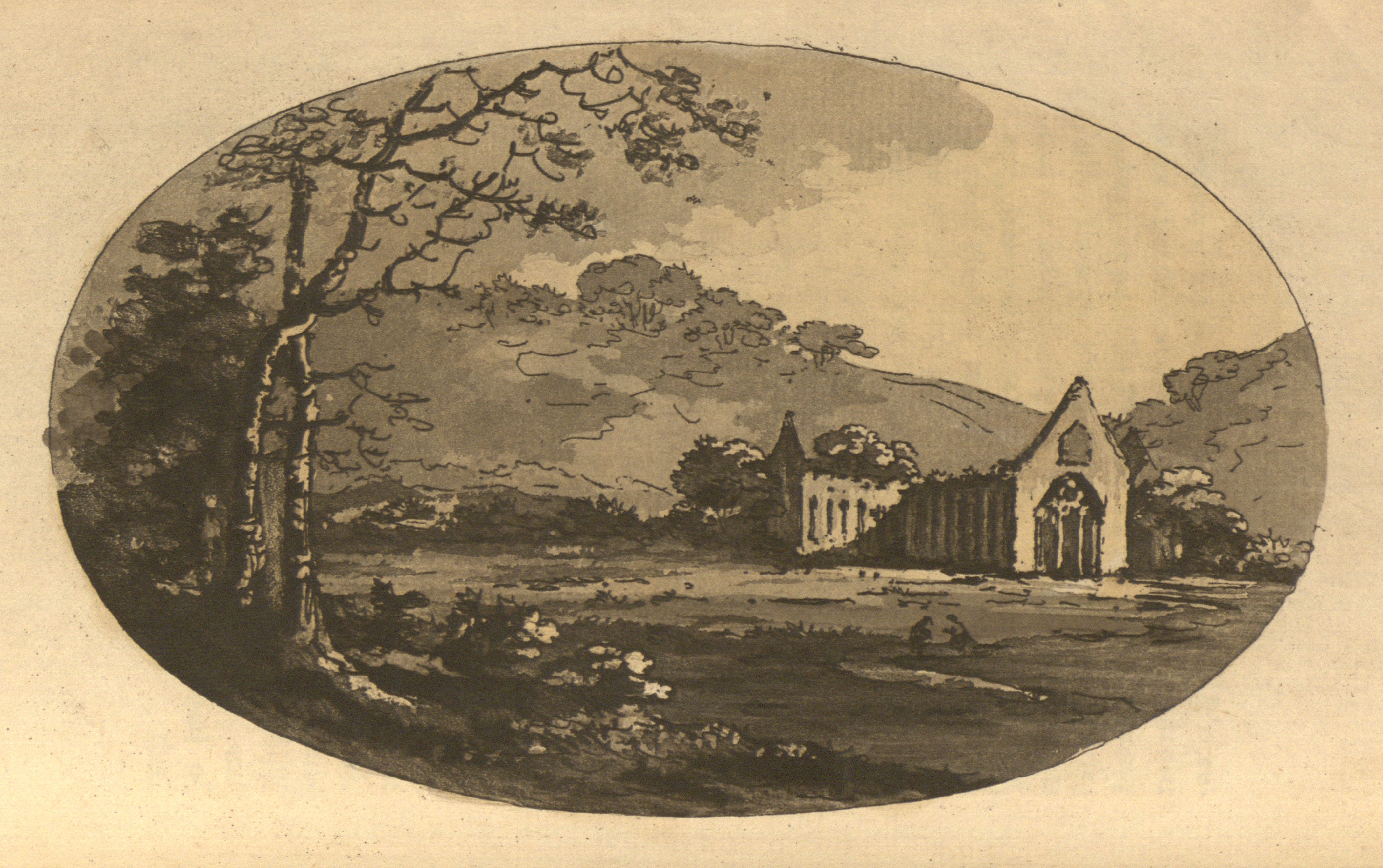 An aquatint of Tintern Abbey from William Gilpin's Observations on the River Wye, 1782